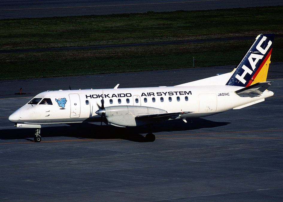 Hokkaido Air System Saab 340B-WT JA01HC （JAS color）